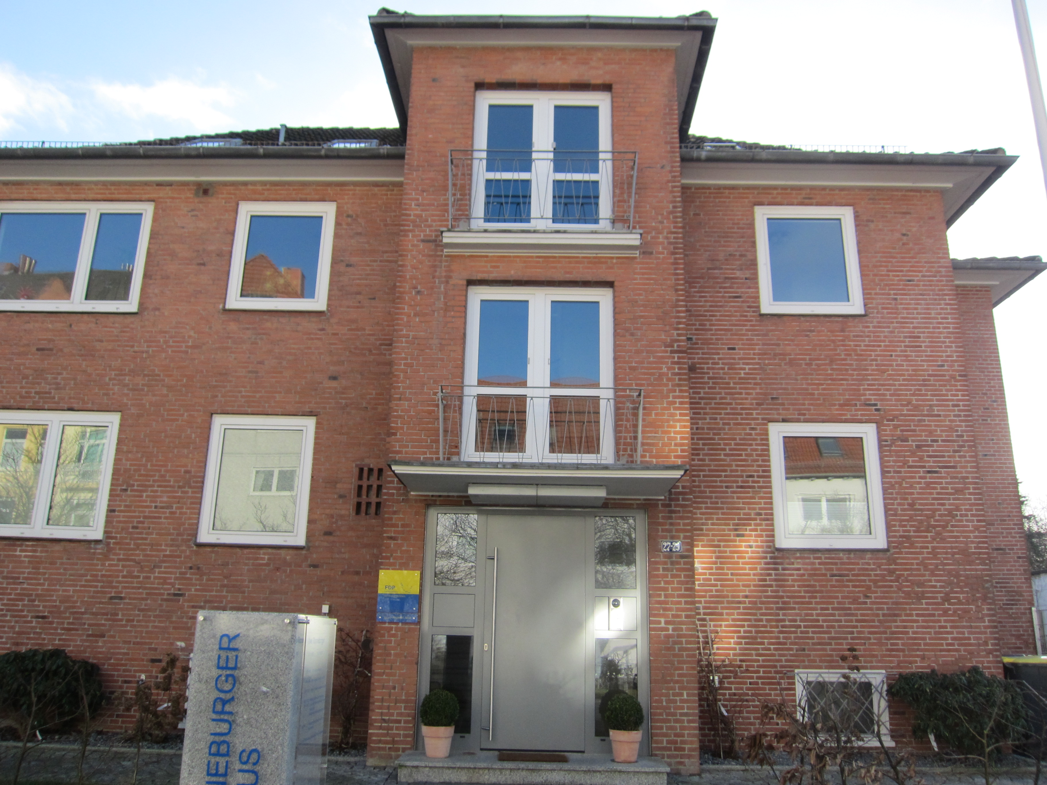 Bureau of the FDP state association of Schleswig-Holstein in Kiel-Schreventeich